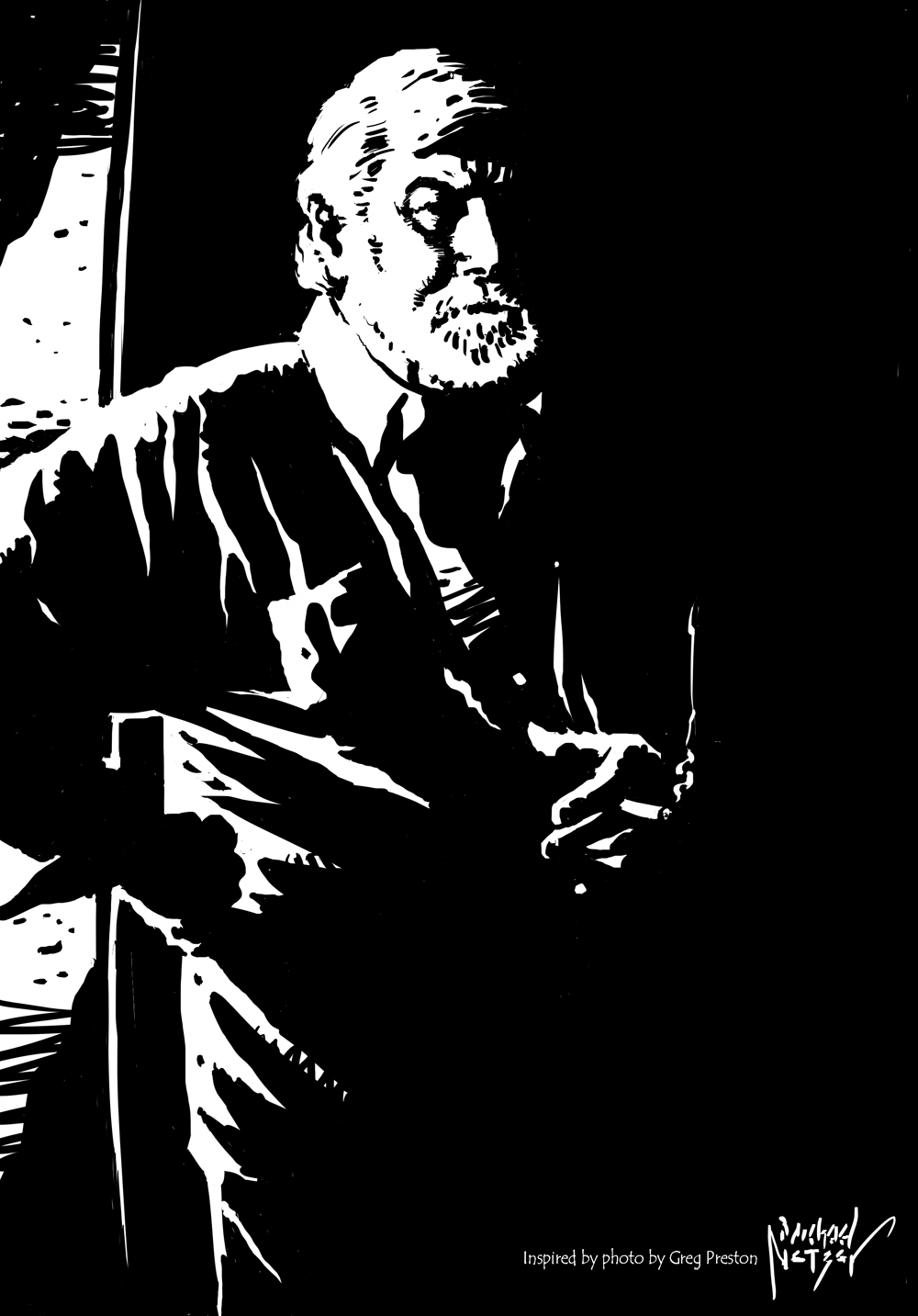 Portrait of comics artist Alex Toth, from Michael Netzer's Portraits of the Creators Sketchbook.